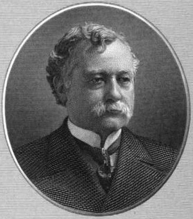 Rufus E. Lester (Georgia Congressman)